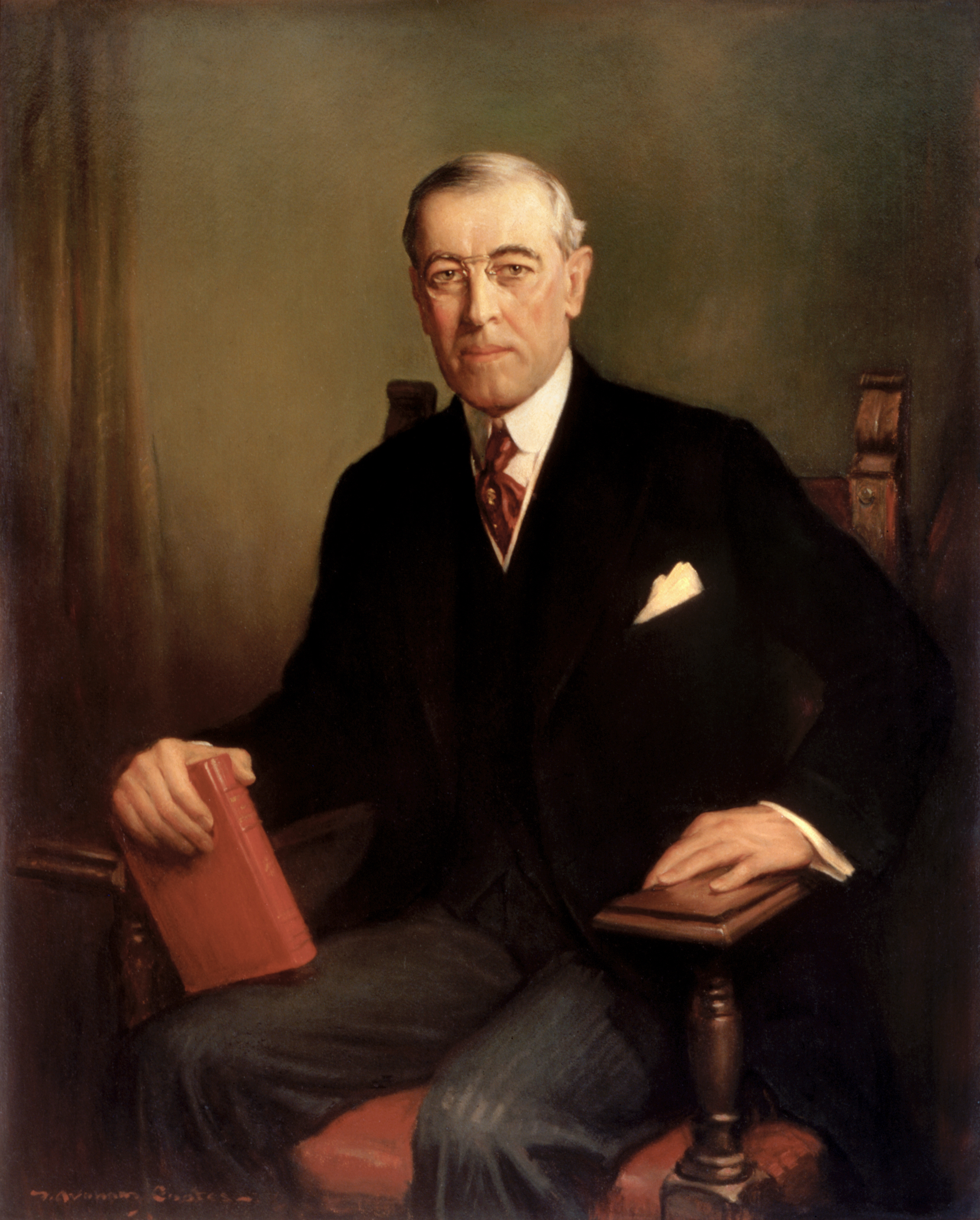 Official Presidential portrait of Woodrow Wilson